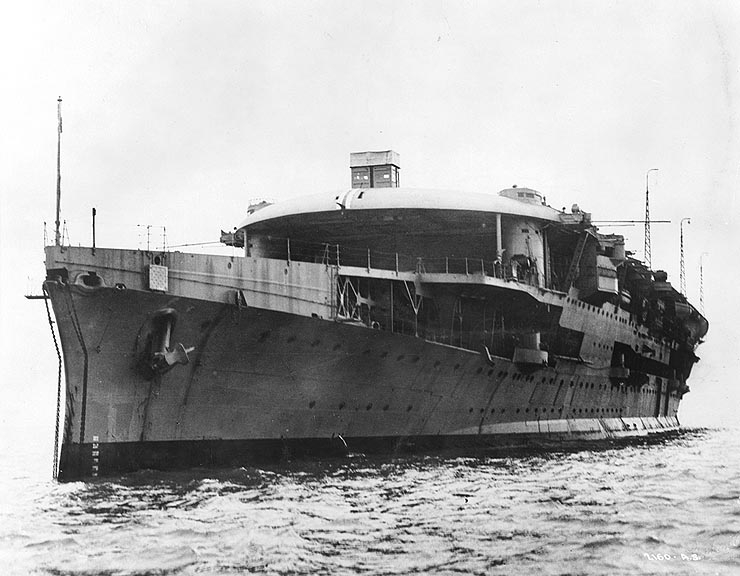 HMS Furious (British Aircraft Carrier, 1917-1948) Photographed soon after completion of her 1921-1925 reconstruction.